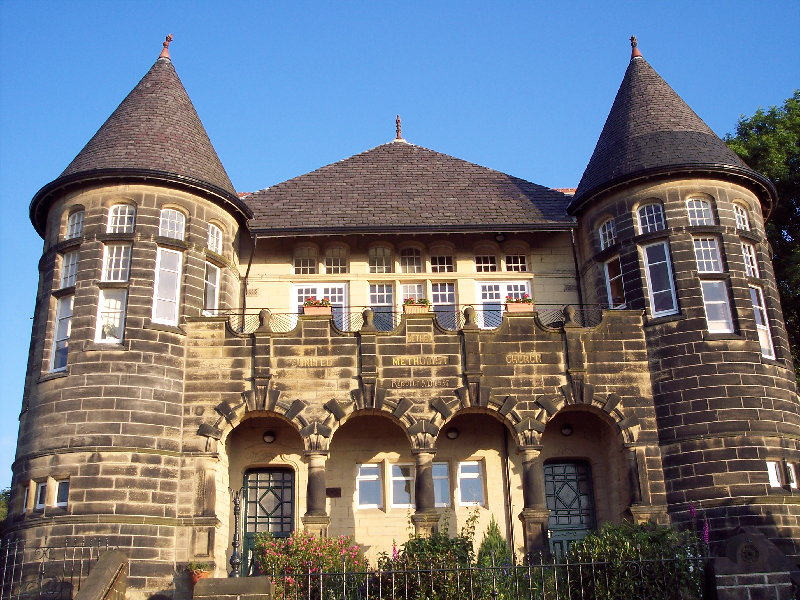 Bethel Methodist church, Boulder Clough. Looking W. This church appears to have been converted to a private residence.